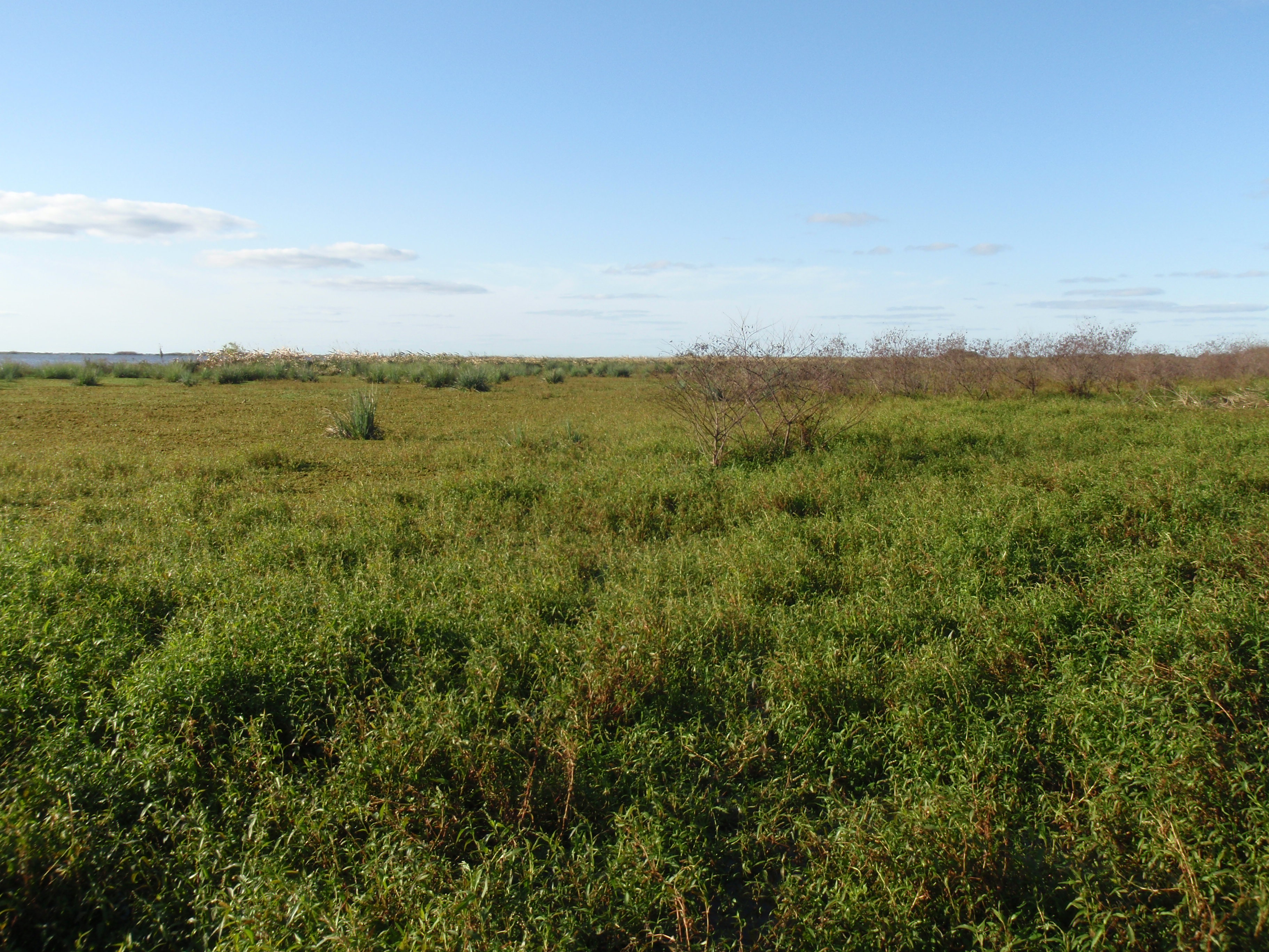 Reserva Nacional Esteros del Ibera, Argentina